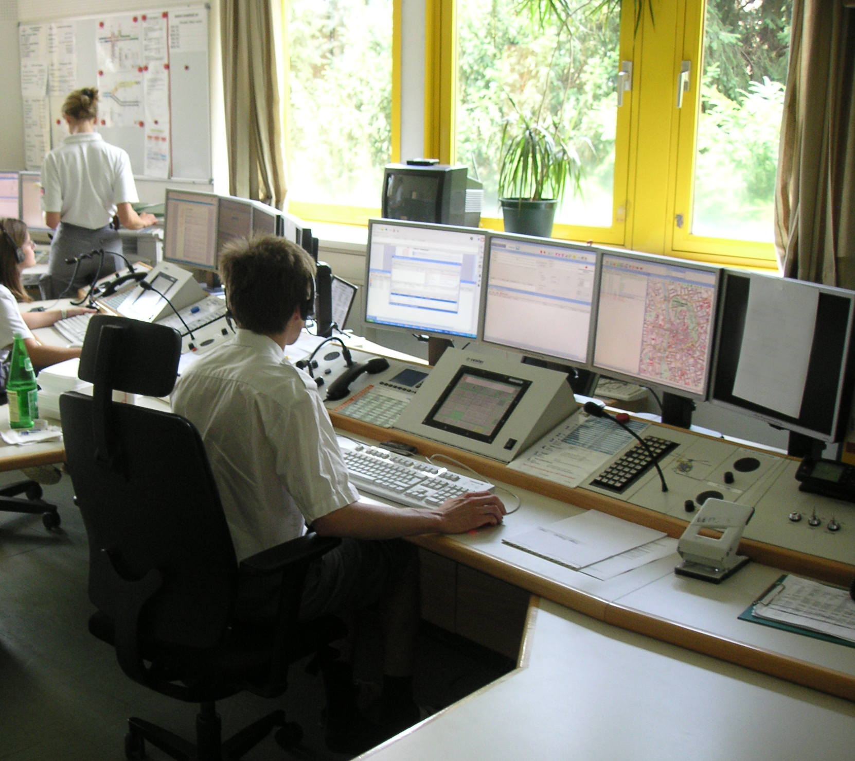 Ambulance dispatch center in Graz, Austria. Small edits using Photoshop to protect confidential data.